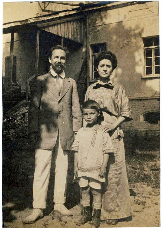 Julian Scriabin (12 February 1908 – 22 June 1919) was the son of Russian composer Alexander Scriabin and Tatiana de Schloezer. He was himself a composer and pianist.